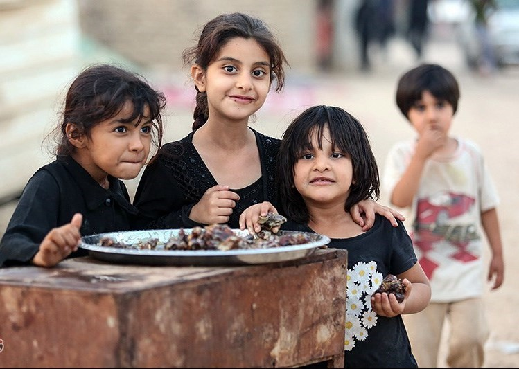 Children in Arbaeen Walk- November 2017